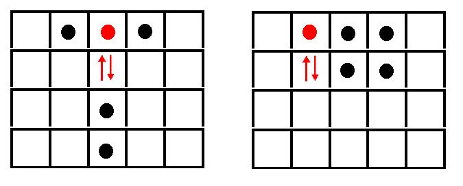 A position in the kared game (a sort of Tuareg draughts)